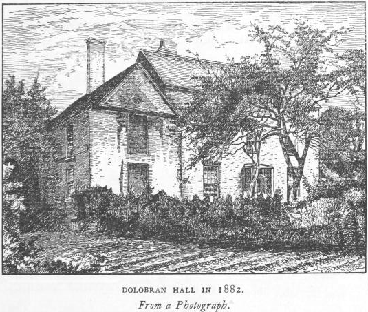 Engraving of Dolobran Hall, in the parish of Meifod in Montgomeryshire (now Powys), Wales, after an 1882 photograph. It was the seat of the Lloyd family, later of Birmingham, iron-masters, founders of Lloyds Bank and Quakers.